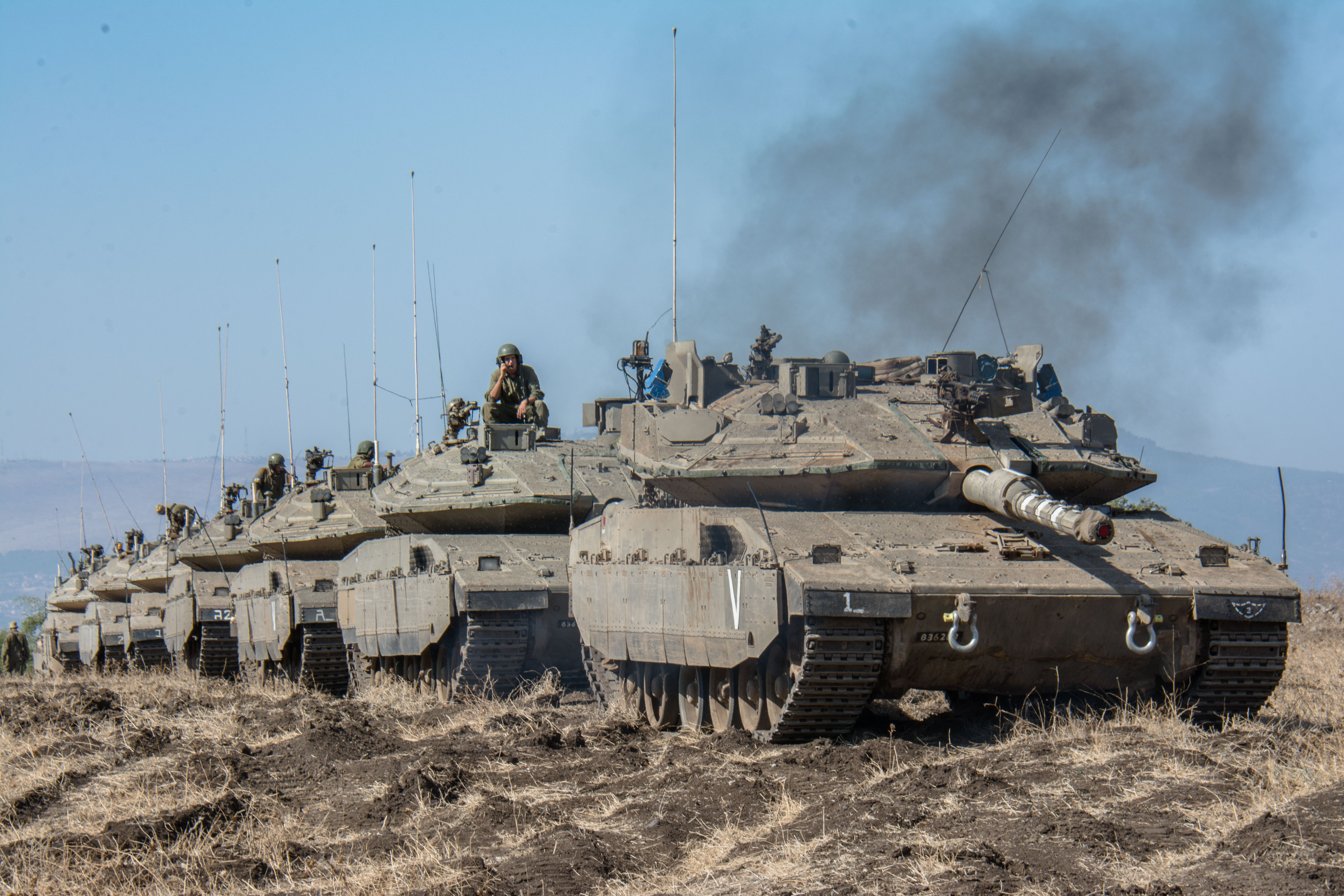 The Merkava IV tank makes its introduction to the 7th Armored Brigade.